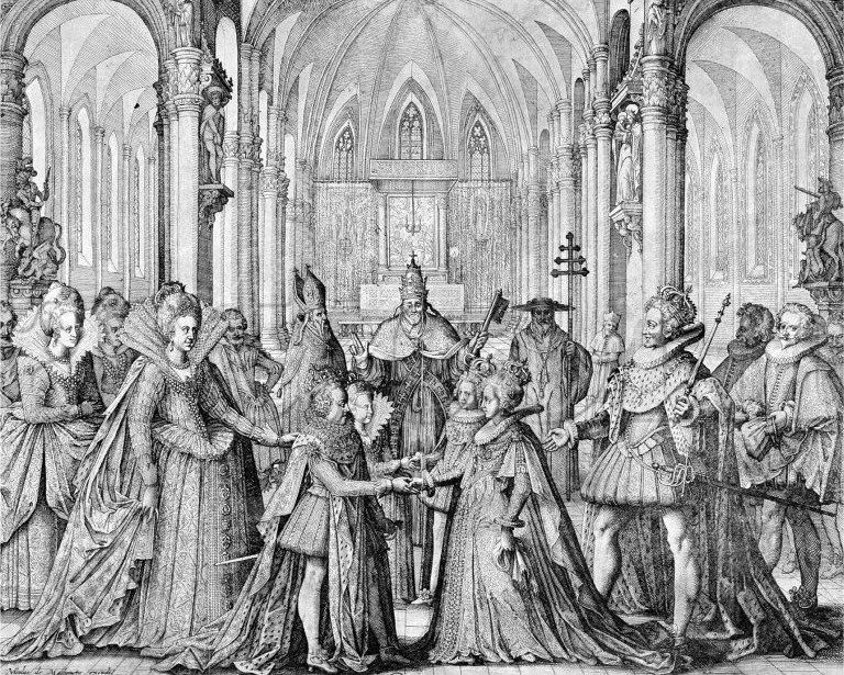 The double marriage between France and Spain in 1615 by Nicolas de Mathoniere. The drawing shows Louis XIII marrying Anne of Austria and Élisabeth of France marrying Felipe of Austria (future King of Spain)